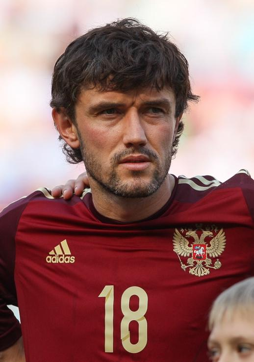 Yuri Zhirkov representing Russian national team in a friendly game against Morocco in Moscow.